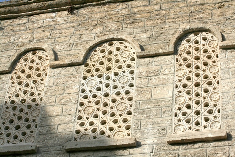 khans_mosque_in_shirvanshahs_palace_in_baku_14thcentury